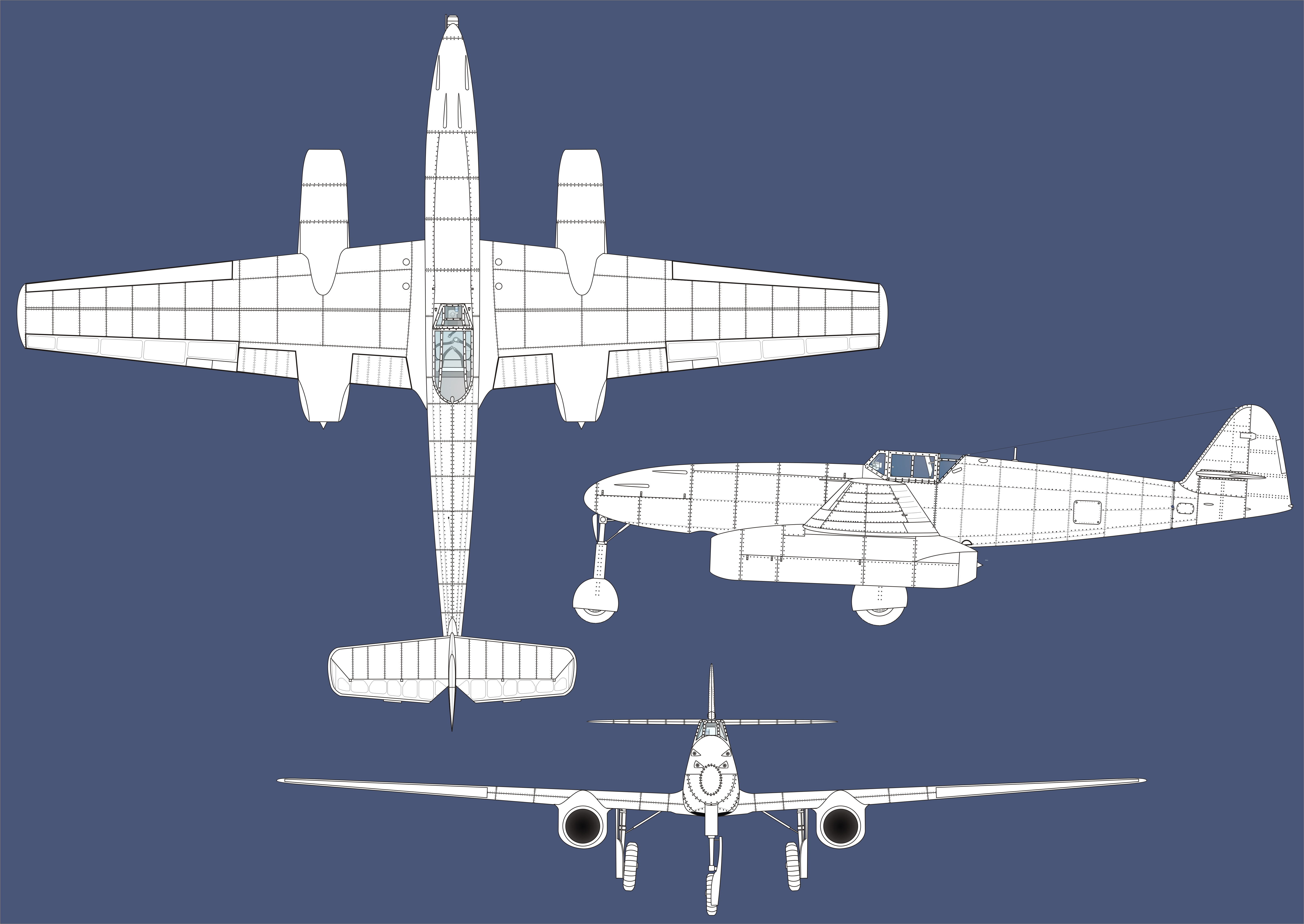 Bf 109 TL